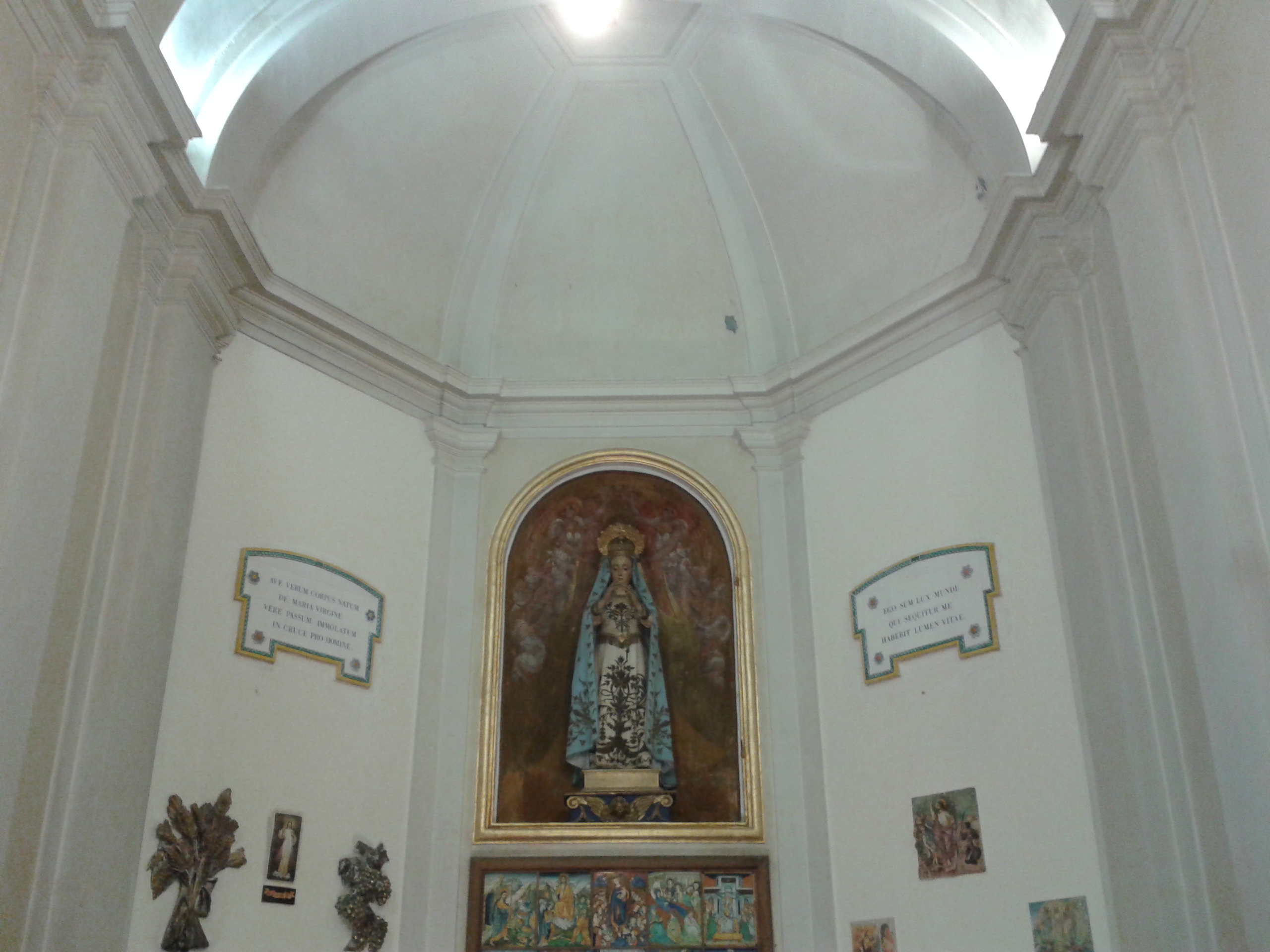 Interno della cappella